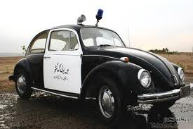 1955 police car in Iran, Volkswagen